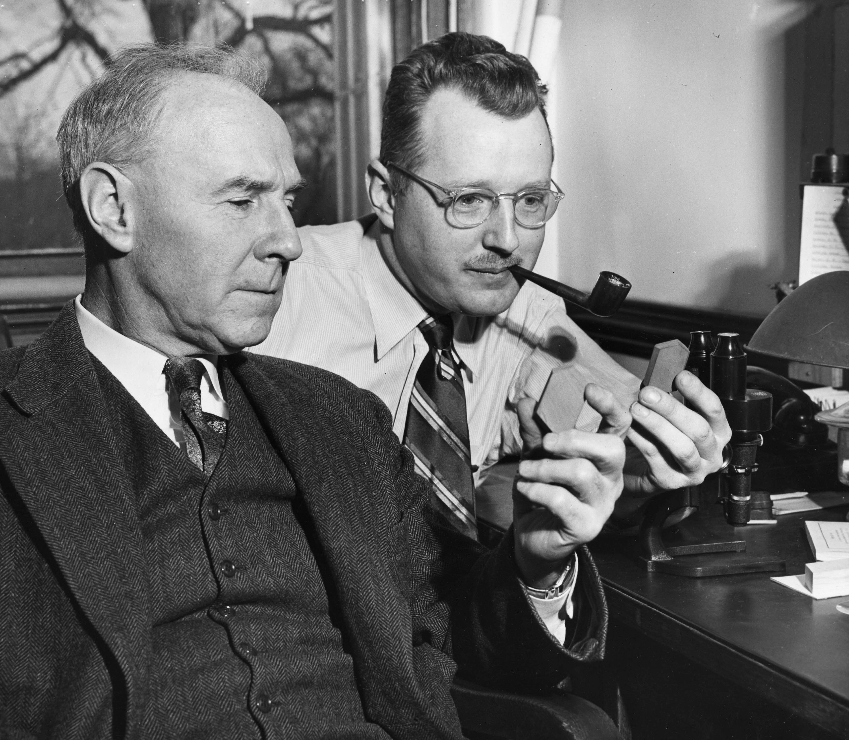 Subject: Bowen, Norman Levi 1887-1956 Tuttle, O. F (Orville Frank) 1916- Carnegie Institution of Washington Geophysical Laboratory Pennsylvania State University Stanford University University of Chicago Type: Black-and-white photographs Topic: Geology Petrology Local number: SIA Acc. 90-105 [SIA2008-0002] Summary: Geologist Norman Levi Bowen (1887-1956) was at Carnegie Institution of Washington, 1920-1937, and then became professor at University of Chicago; Orville Frank Tuttle (1916-1983) was at the Carnegie Institution Geophysical Laboratory, 1942-1945 and 1947-1953, a professor at Penn State University, 1953-1965, and then at Stanford University, 1965-1970 Cite as: Acc. 90-105 - Science Service, Records, 1920s-1970s, Smithsonian Institution Archives Persistent URL: Repository:Smithsonian Institution Archives View more collections from the Smithsonian Institution.